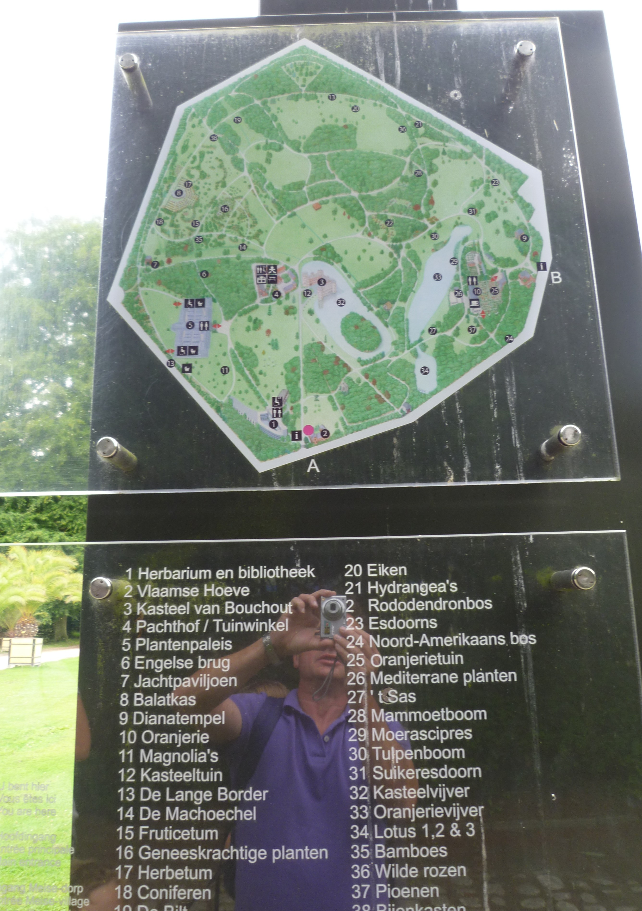 Public Map of interesting sites at the National Botanic Garden of Belgium.